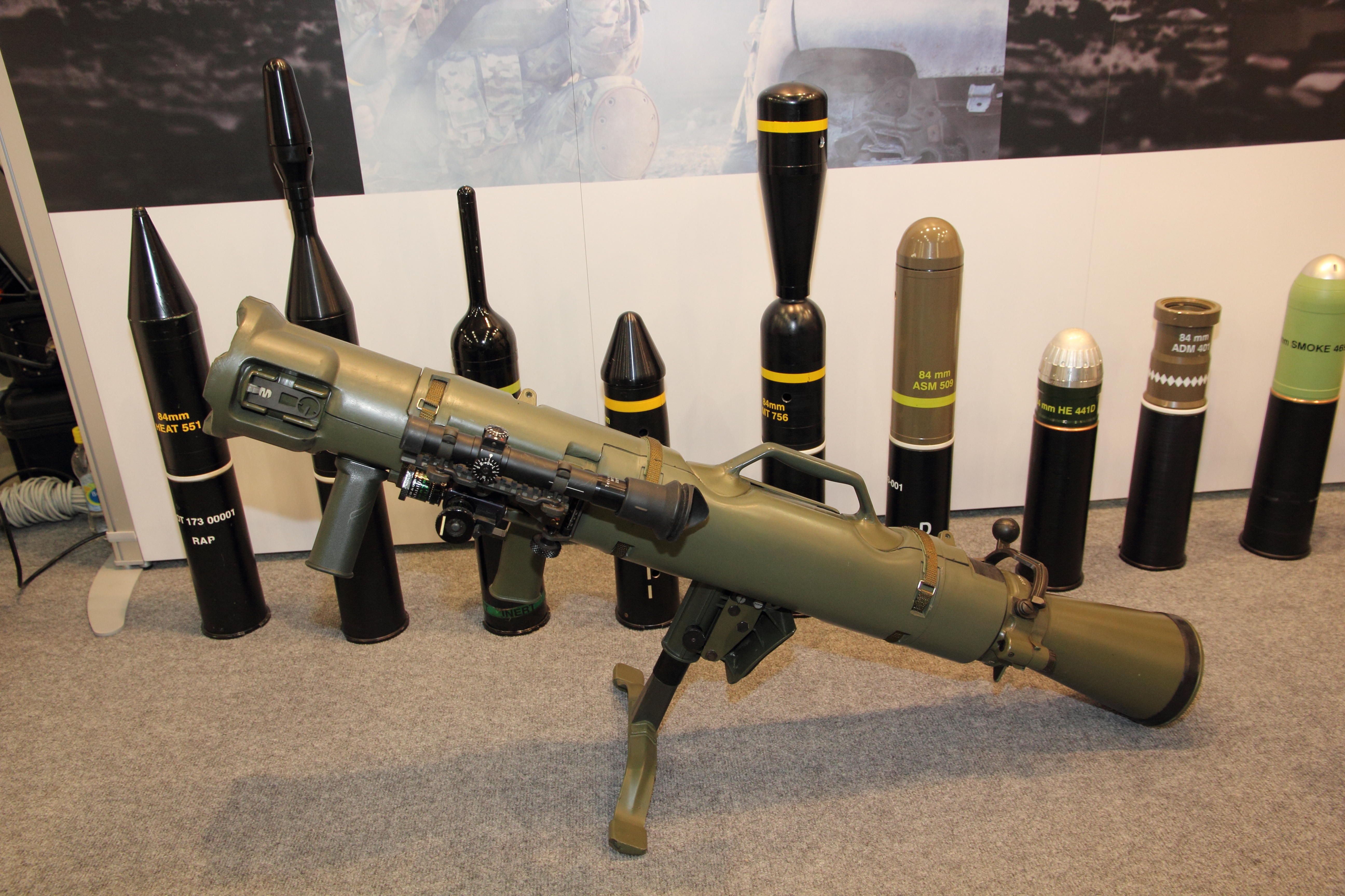 Carl Gustav M3 anti-tank rocket at Bofors exhibition stall at Comprehensive security exhibition 2015 in Tampere.